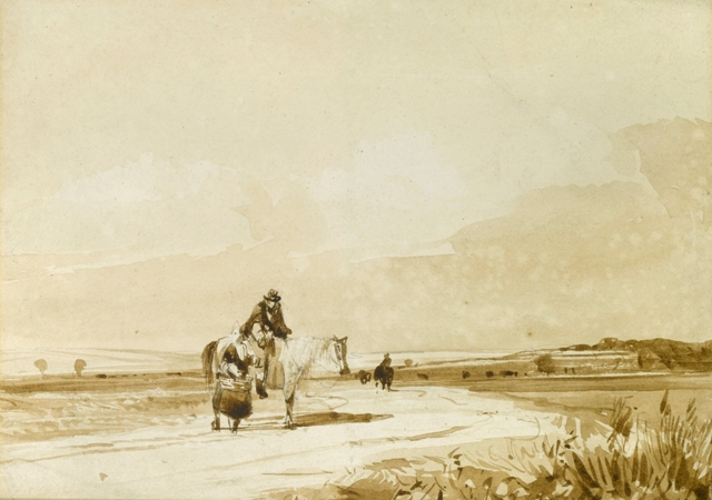 David Cox - Travellers on a Path. Pencil and brown wash.